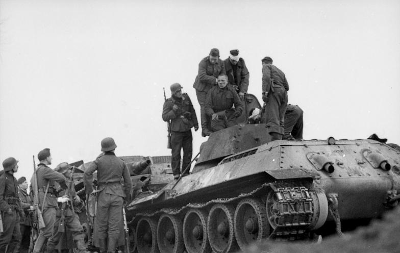 Information added by Wikimedia users.